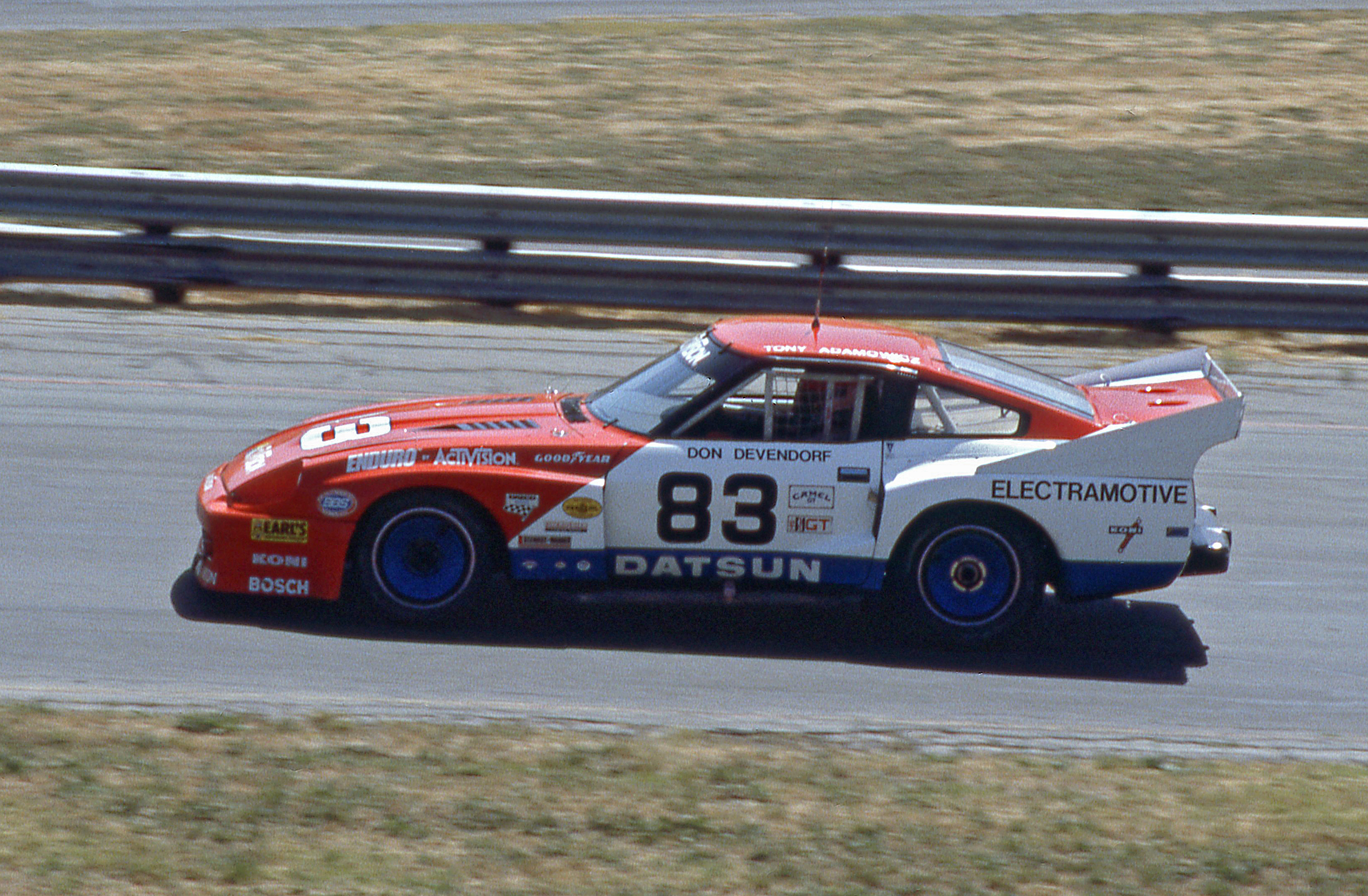 Don Devendorf and Tony Adamowicz piloted a Datsun 280ZX Turbo to a GTO class win in the 1983 IMSA Camel GT race at Sears Point International Raceway in Sonoma, California.